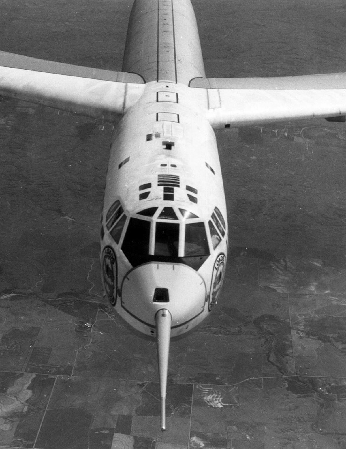 Boeing NB-52E in flight. Photo shows detail of nose during LOADS program